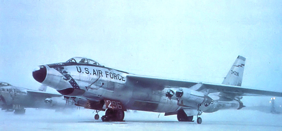 55th Strategic Reconnaissance Wing - Boeing RB-47H-1-BW Stratojet 53-4296 Shown at Eielson AFB, Alaska. Aircraft retired to storage Dec 29, 1967, last USAF B-47 to serve. Now at USAF Armament Museum, Eglin AFB. FL. At one stage, it had its nose modified to test F-111 radar.